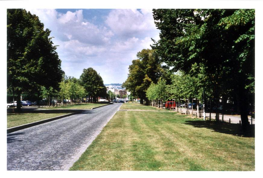 This picture has been taken by myself in June in the city of Meudon near Paris. This road is a link between Bellevue and the Observatoire de Paris.